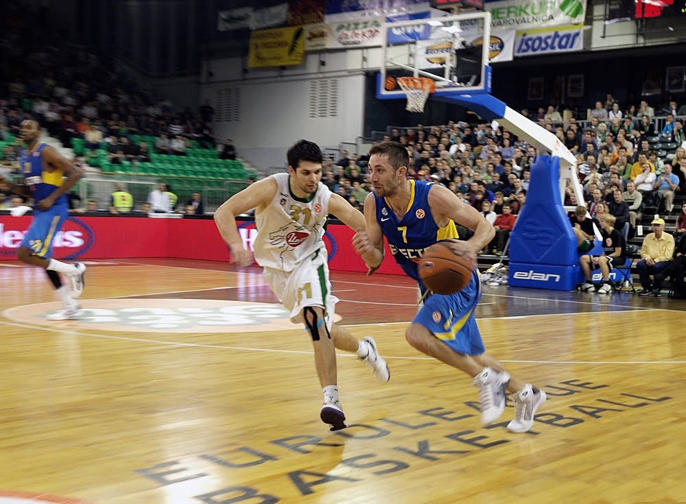 KK Union Olimpija vs Maccabi Tel Aviv in Hala Tivoli, Euroleague 2009/10